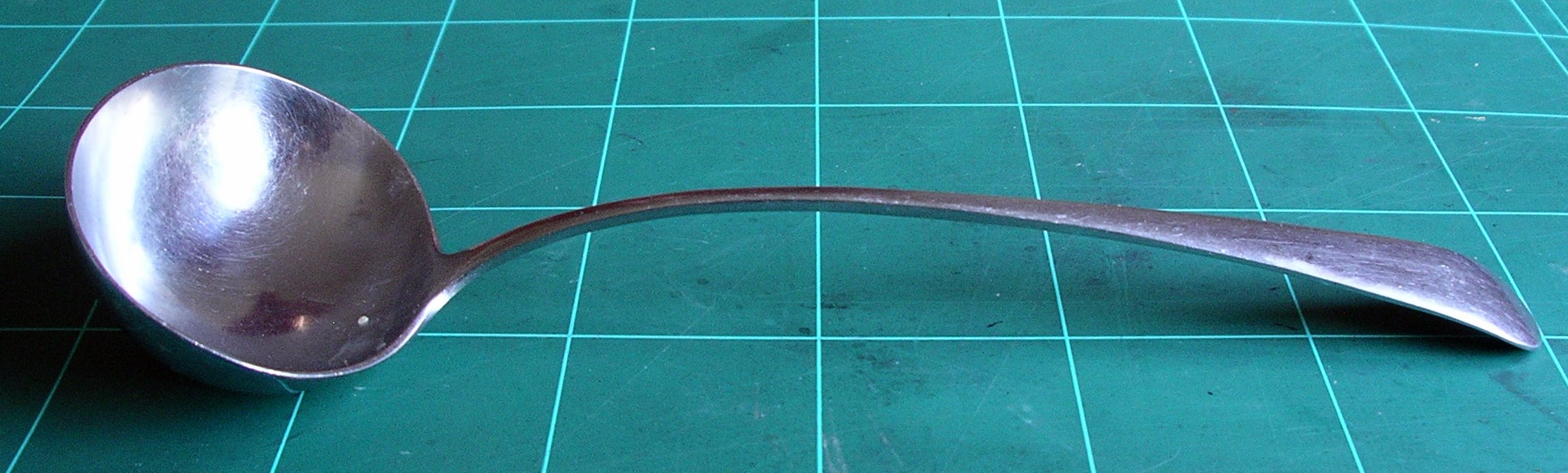 Ladle made of steel - on background of 5cm squares